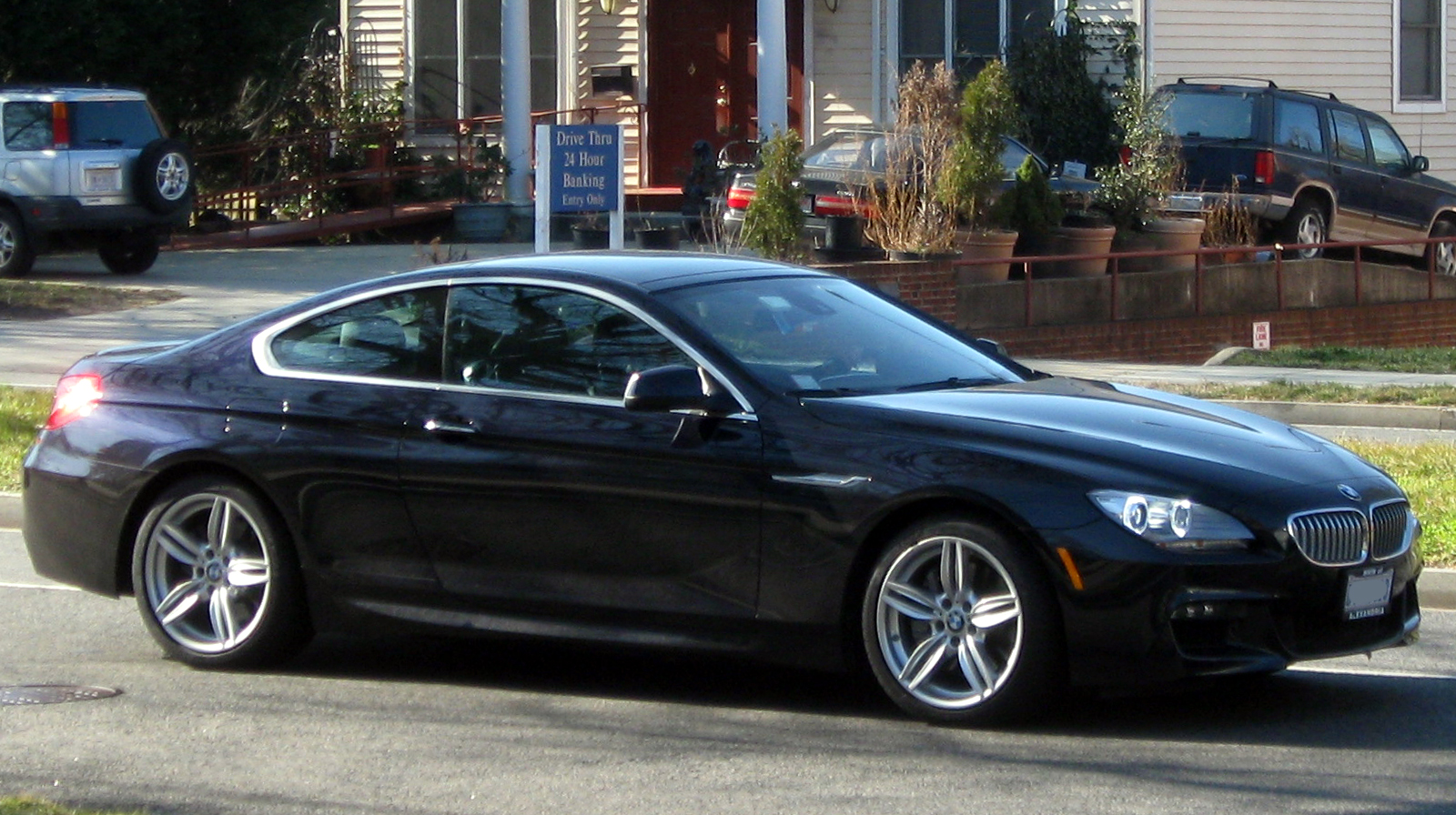 2012 BMW 650i photographed in Washington, D.C., USA.